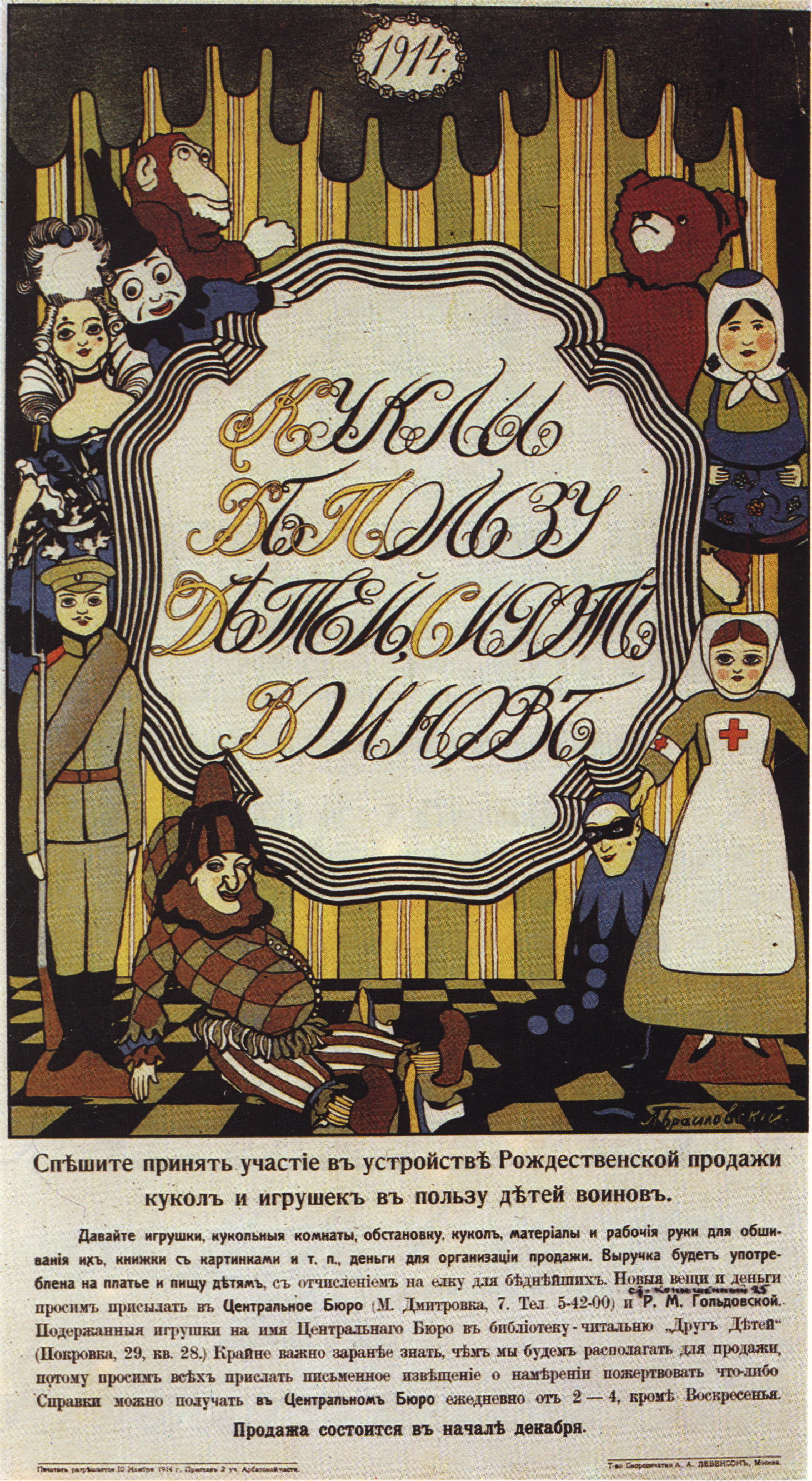 poster